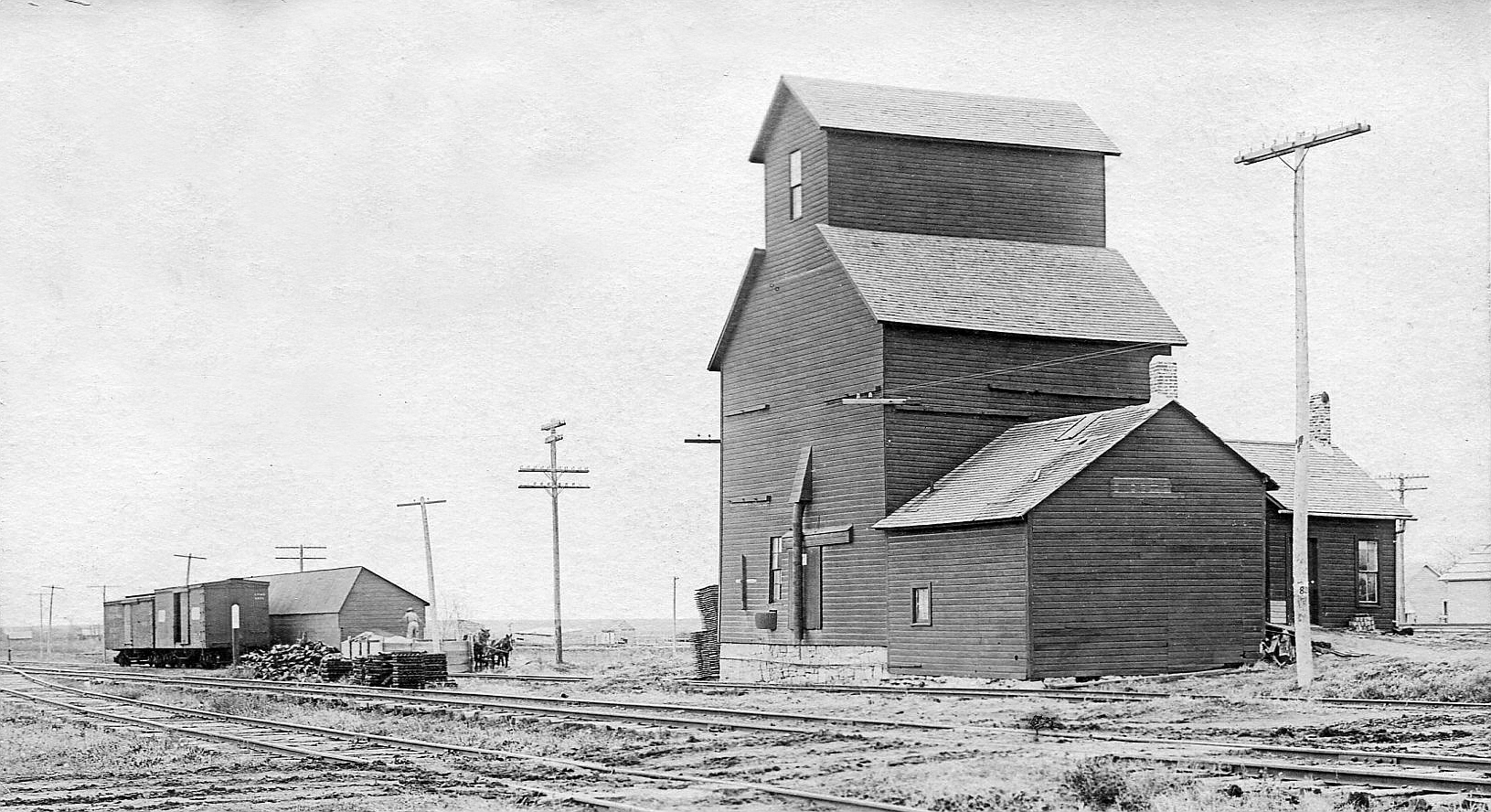 Railroad yard in Tobias, Nebraska.